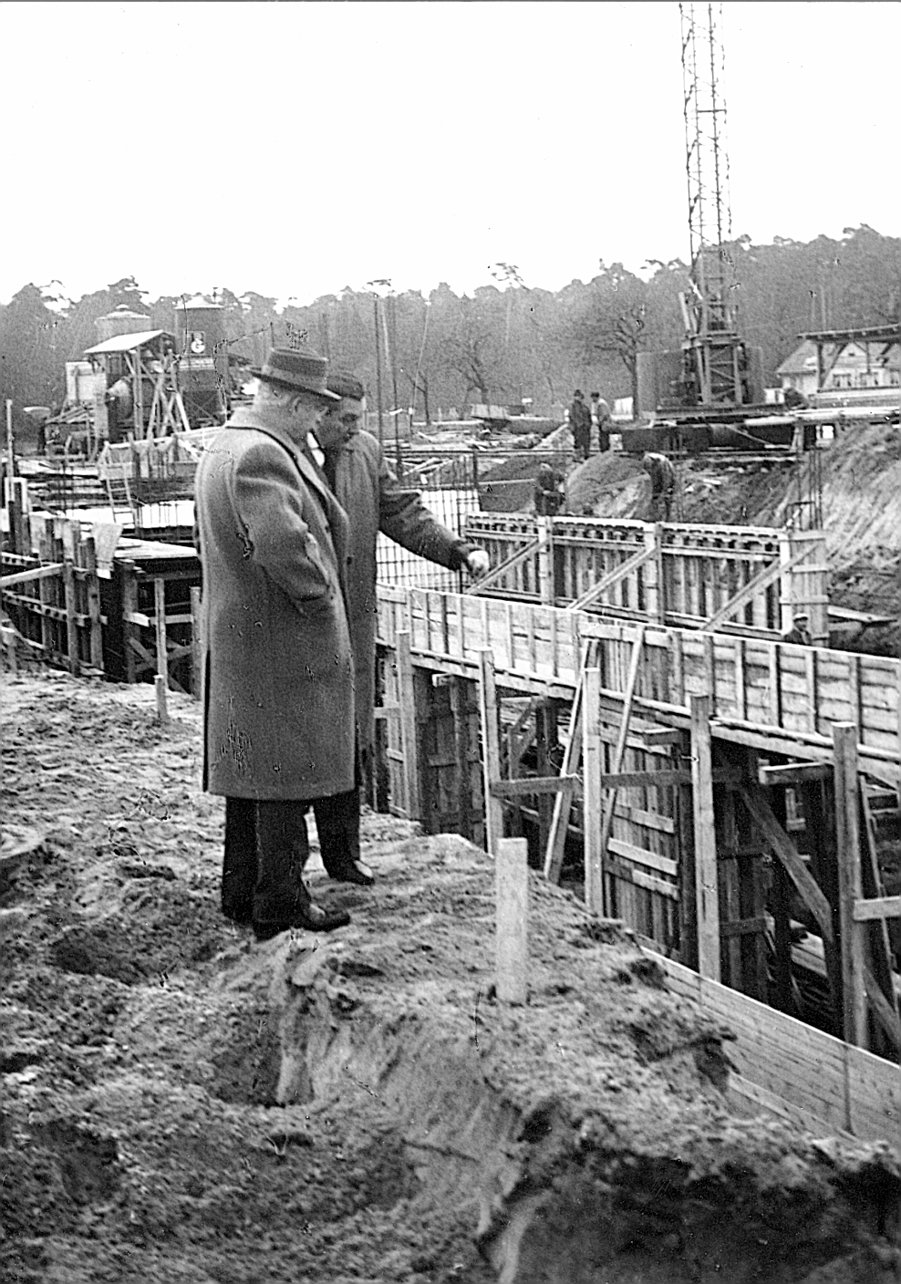 Mads Clausen visits building site of Flensburg plant (1956)